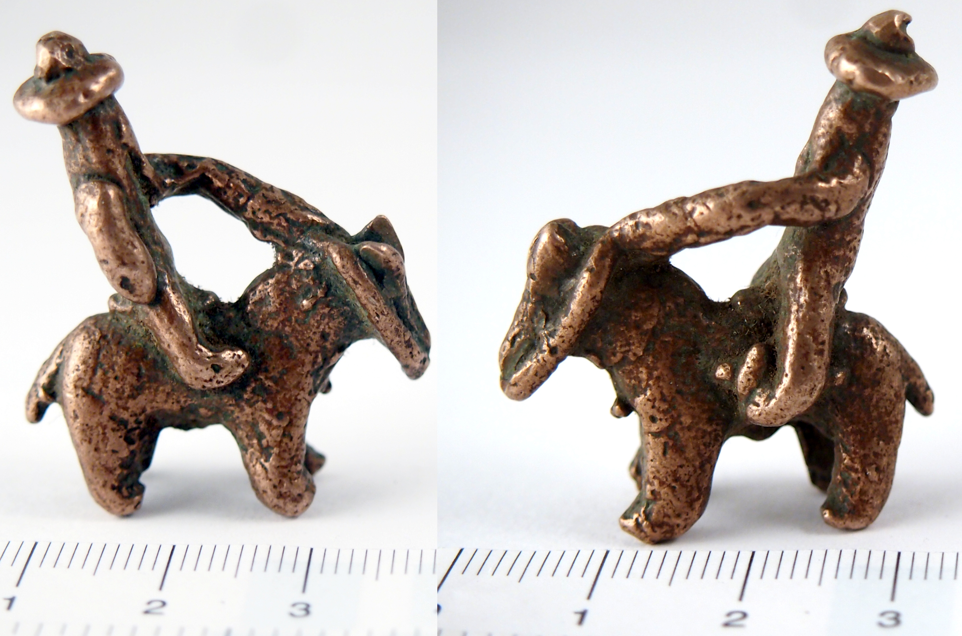 Old African bronze (Brass) metal warrior equestrian rider from the Kotoko people, Chad. Measures 3.2 x 4cm SOLD For a close look open the set then click the detail tab. double click on an image to open. Click actions tab then view all sizes. open original size. Further information or more images of individual pieces please contact us with image number: Ann Porteus Sidewalk Tribal Gallery 19-21 Castray Esplanade, Battery Point 7004 Hobart Tasmania Australia t: 613 6224 0331